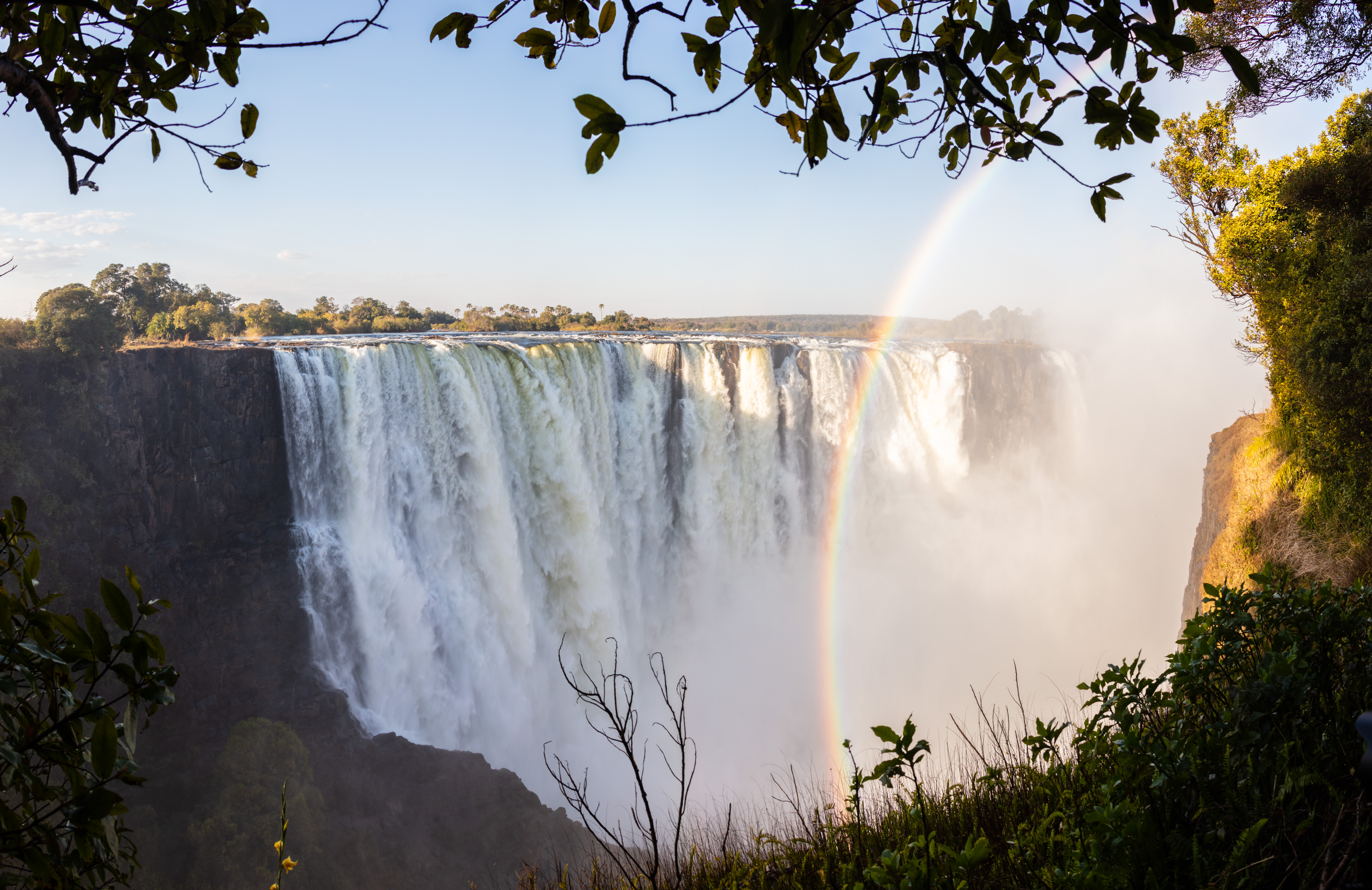 Victoria Falls, Zambia-Zimbabwe